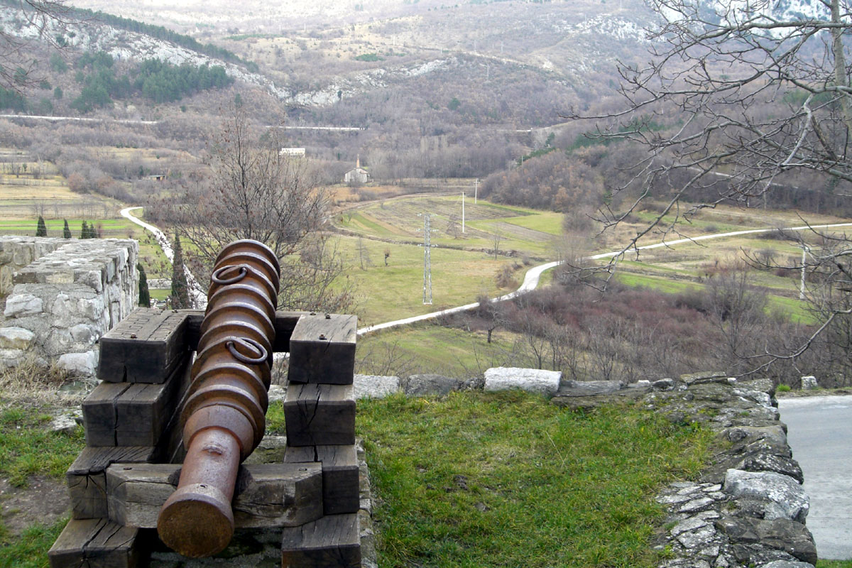 Ročko polje, field near Roč, Istria, Croatia